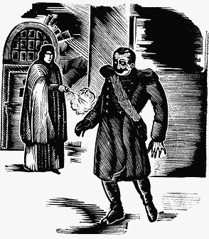 Nikolay Dmitrevsky. Vera Zasulich's shot. Wood engraving, from the book of A. F. Koni "Memoirs of the Case of Vera Zasulich", 1933.